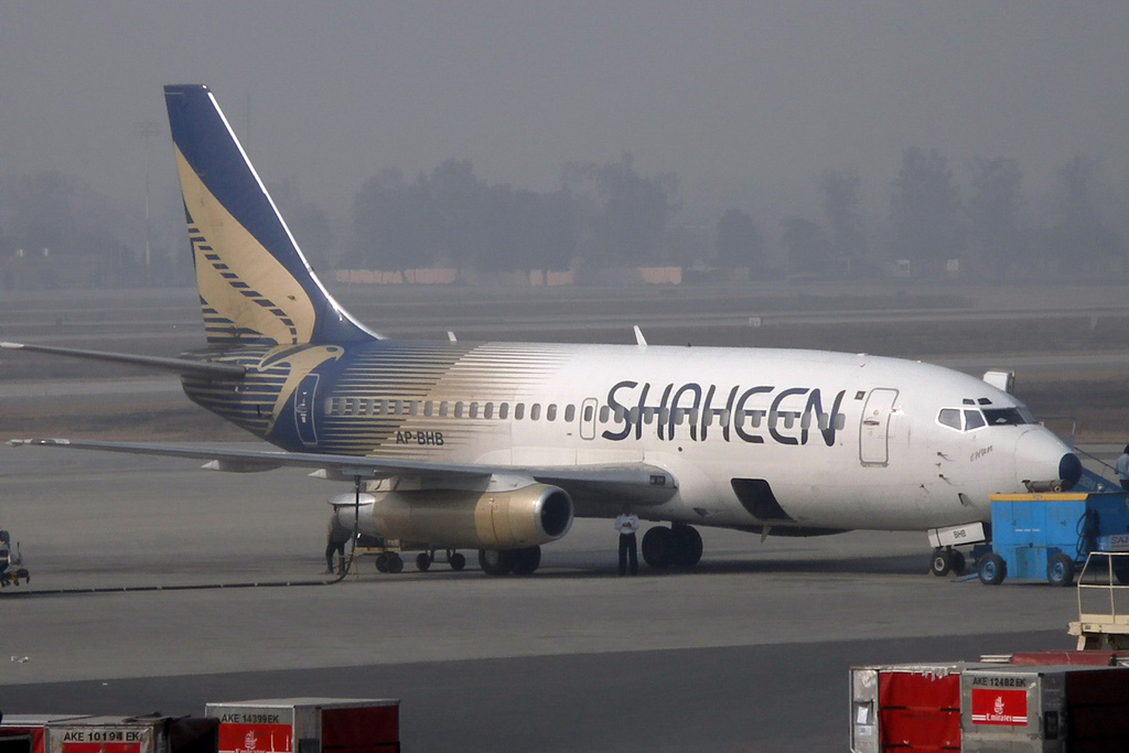 Shaheen Air International Boeing 737-200 at Allama Iqbal International Airport.